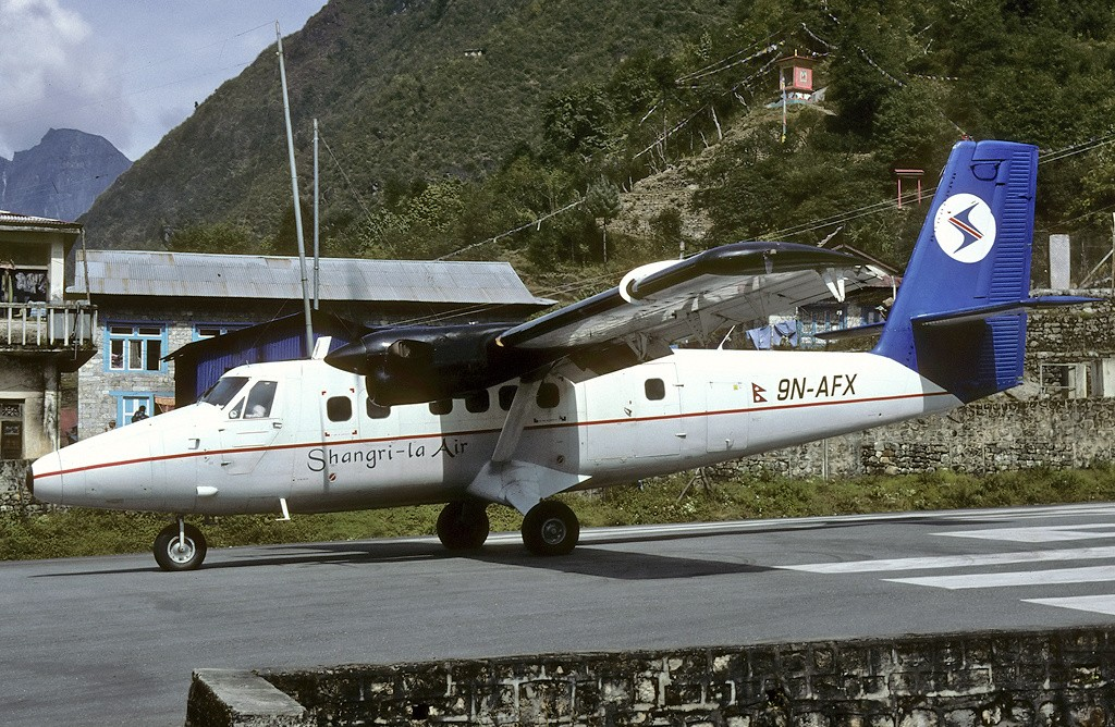 Aircraft Shangri-la Air De Havilland Canada DHC-6-300 Twin Otter Reg.: 9N-AFX MSN: 806 Location & Date Lukla - Tenzing-Hillary (LUA / VNLK) Nepal - October 20, 2006